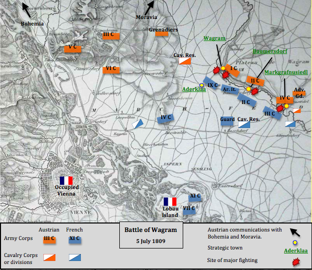 Battle of Wagram, 5 July 1809. The French attacks on the Russbach line in the evening of the first day of battle.